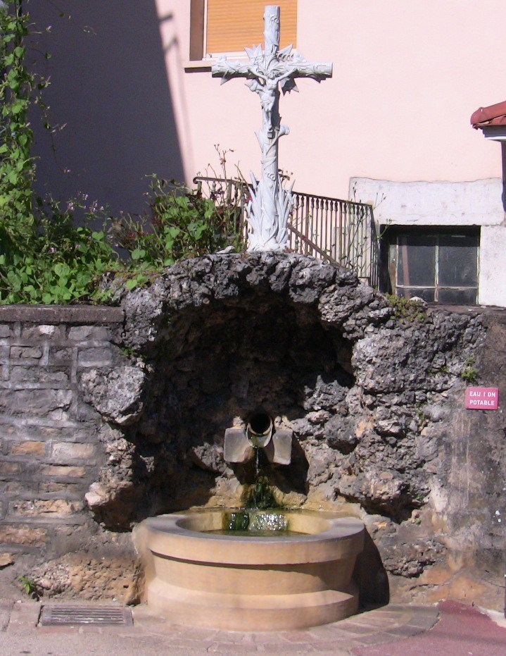 Fountain of Velotte, in Besançon (France)